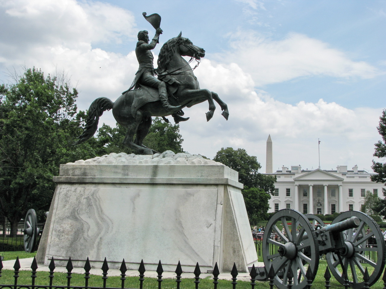 Andrew Jackson, 1853, Sculptor: Clark Mills, Location: Lafayette Park - Pennsylvania Ave. & 16th:Andrew Jackson (1767-1845) is shown here as he appeared following the Battle of New Orleans (fought, unfortunately, two weeks after the treaty to end the War of 1812 was signed). The cannon surrounding the memorial are four rare Spanish cannons he captured in Pensacola. This is the first equestrian statue ever erected in the United States. It was cast less than a mile from its current location at the foundry of its sculptor, Clark Mills. Mills had never seen an equestrian statue before and practiced making many little wooden models in order ot get the balance just right. He was justifiably proud of his accomplishment.